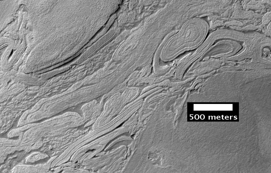 Twisted terrain in Hellas Planitia as seen by hirise. Location is 37.4 S and 57 E.